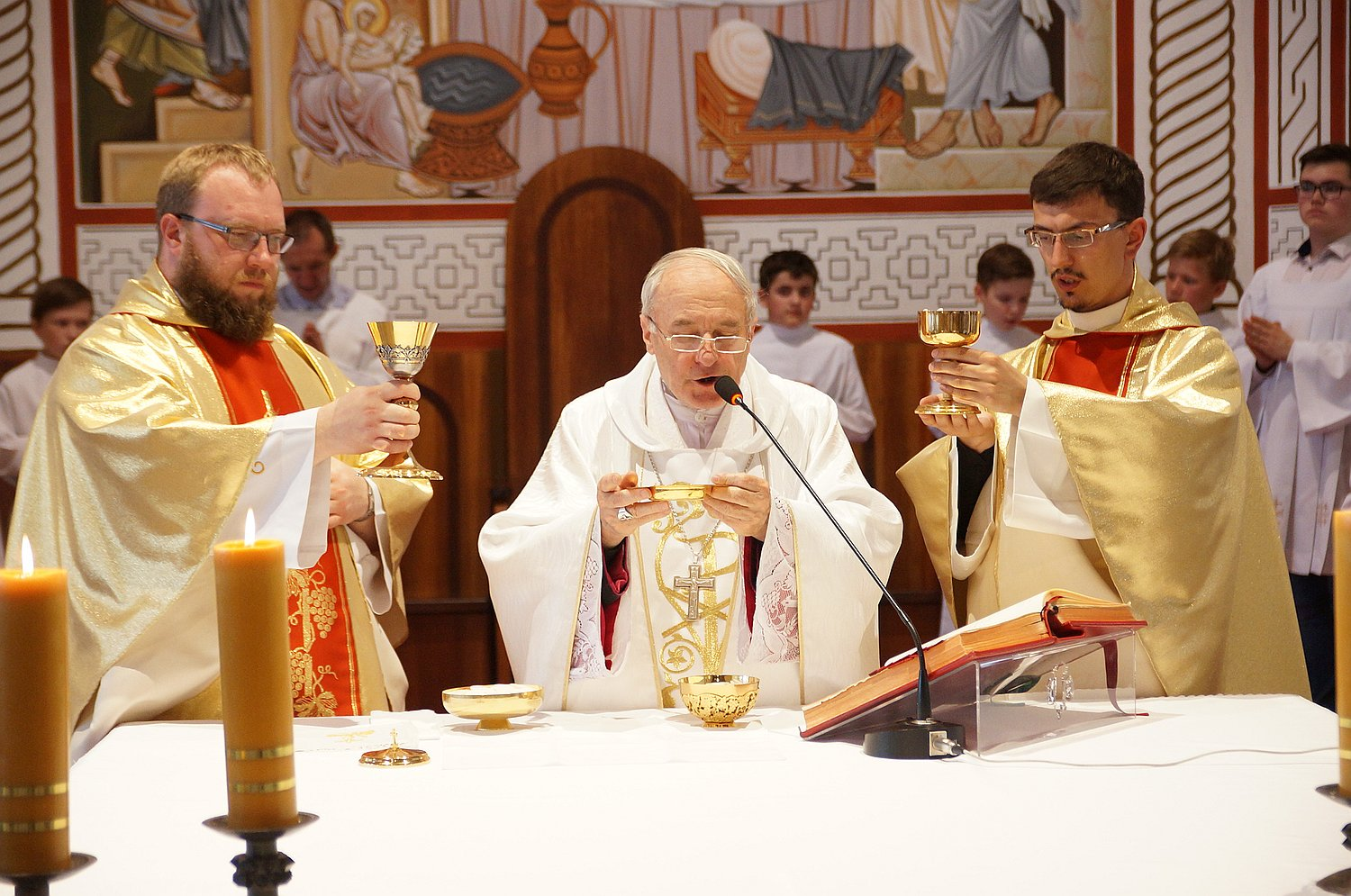 Bishop and priests to keep Holy Mass